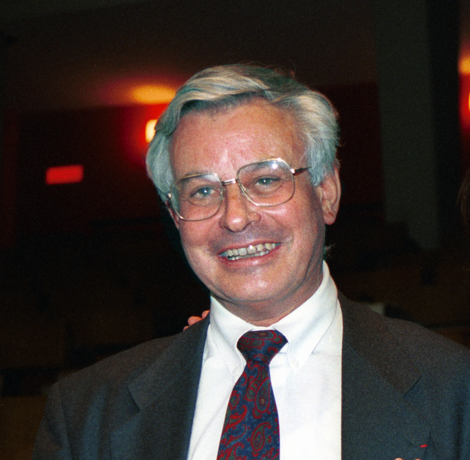 Maurice Jacob, theoretical particle physicist who spent a large part of his professional career at CERN